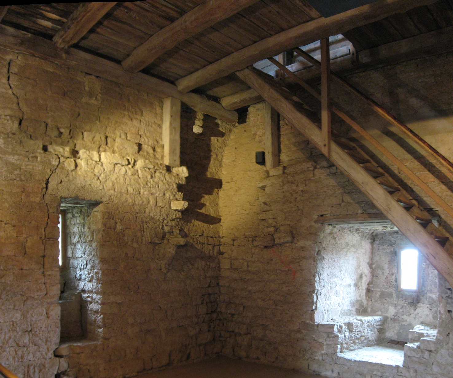 Interior of Habsburg Castle in Switzerland.